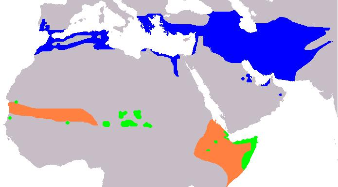 Rufous bush robin distribution, based on the Encyklopedia Ptaki (Encyclopedia of Birds) and Handbook of the Birds of the World, with a background map from wikimedia commons